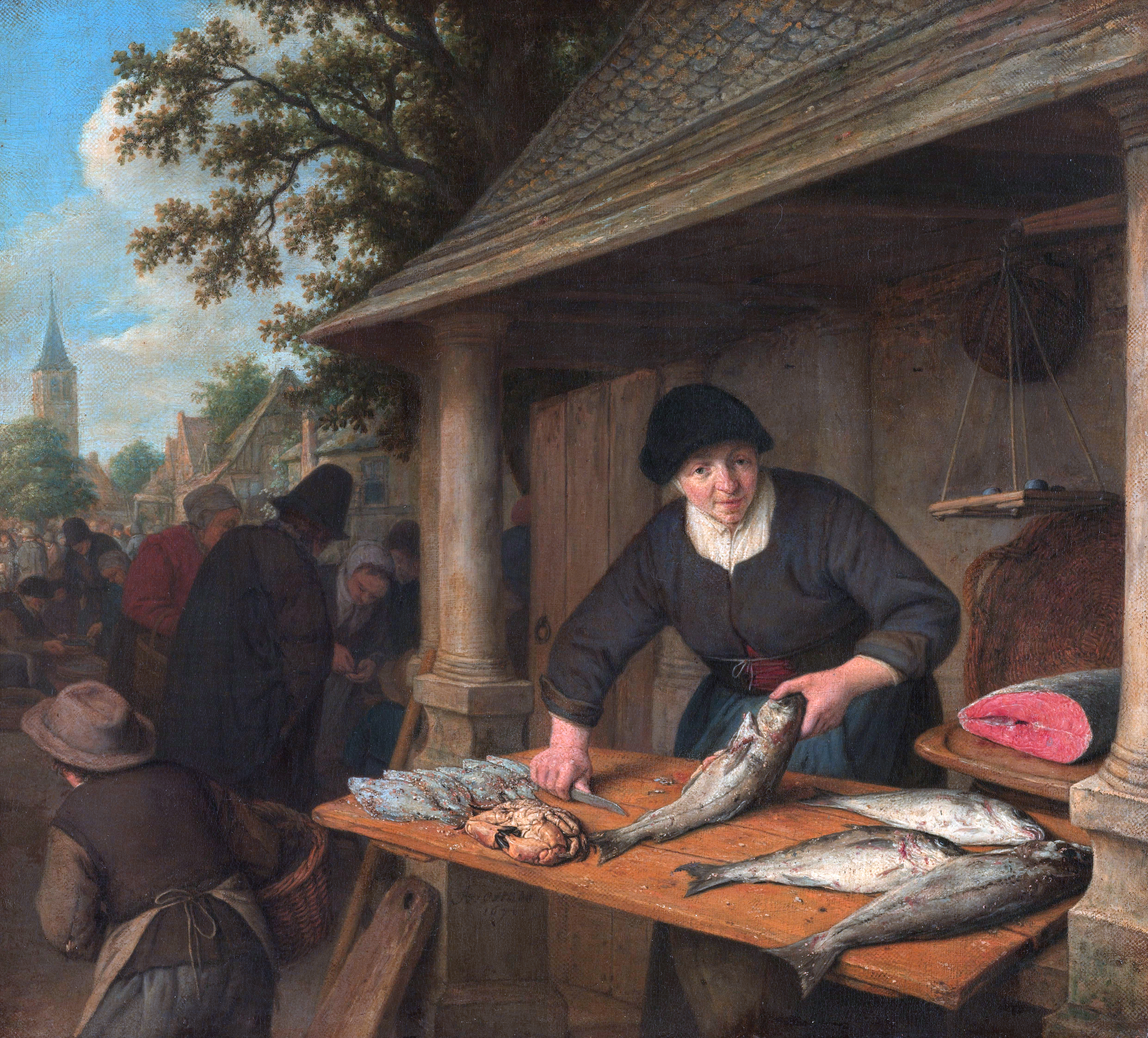 The fishwife oil on canvas 36.5 × 39.5 cm signed b.c.: Av. Ostade / 1672